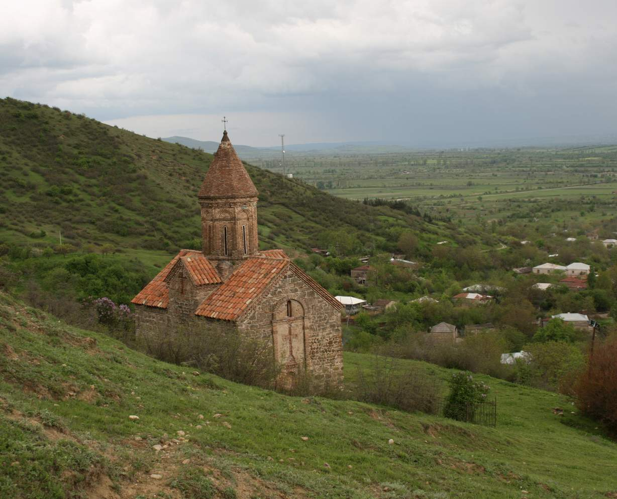 Manavi. The church